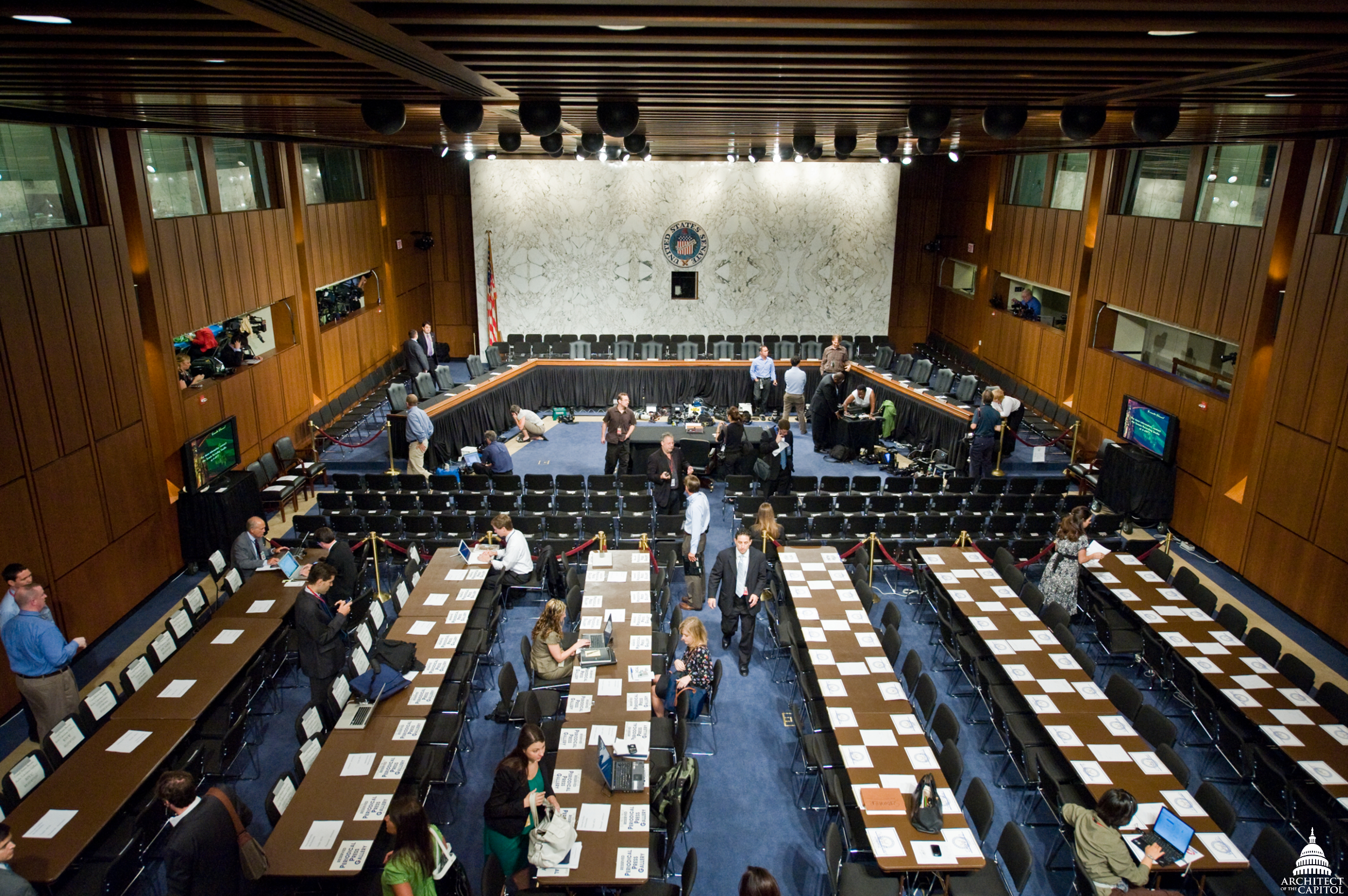 Central Hearing Facility in the Hart Senate Office Building in Washington, D.C., in the United States.